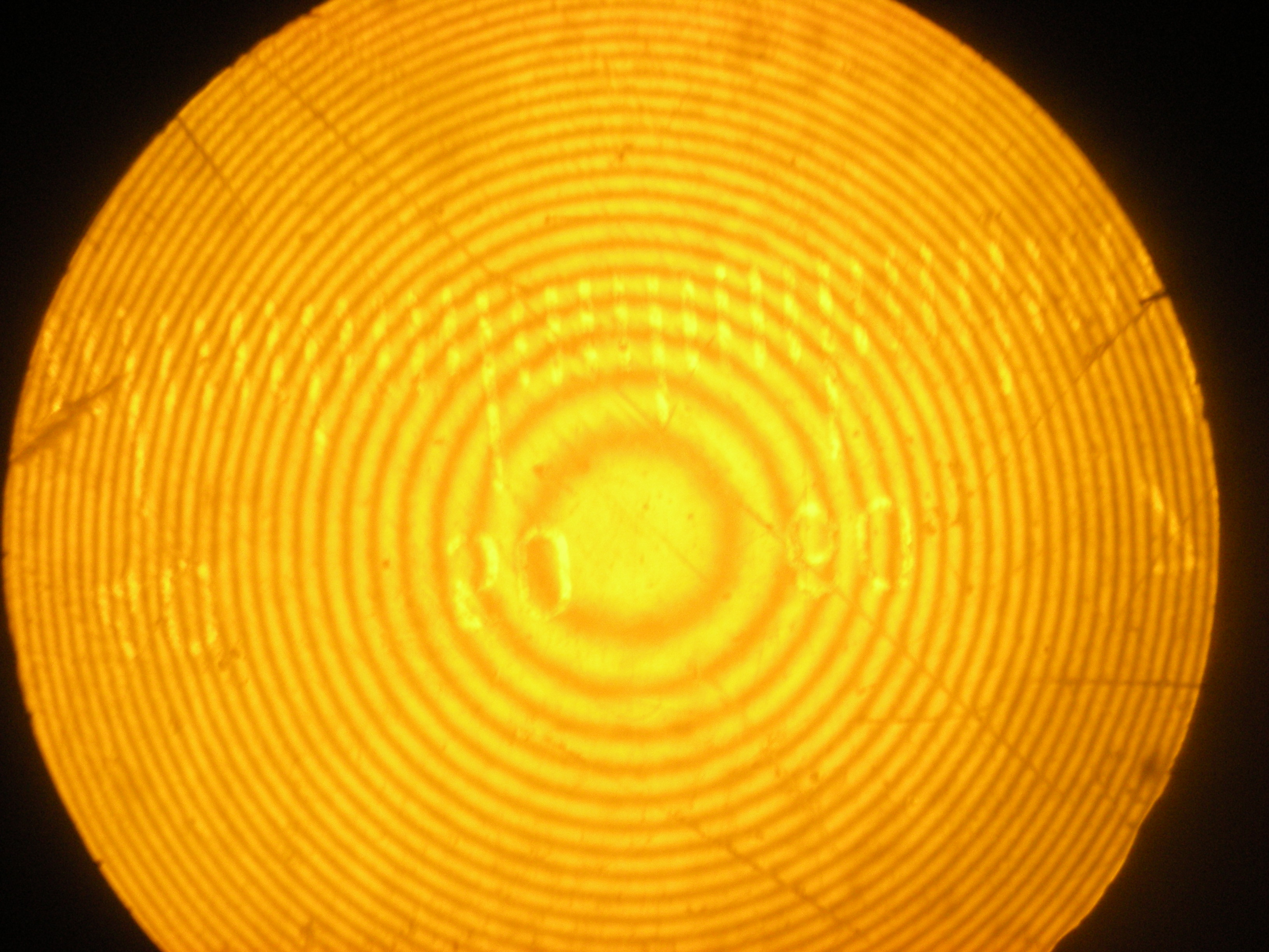 Newton's Rings as observed through a microscope. The lens used is a 20cm convex lens and the light source is a sodium lamp.